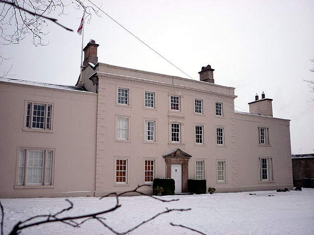 Ashton Hall, Beetham